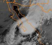 Tropical Storm Rachel making landfall in Baja California on 1990-10-02